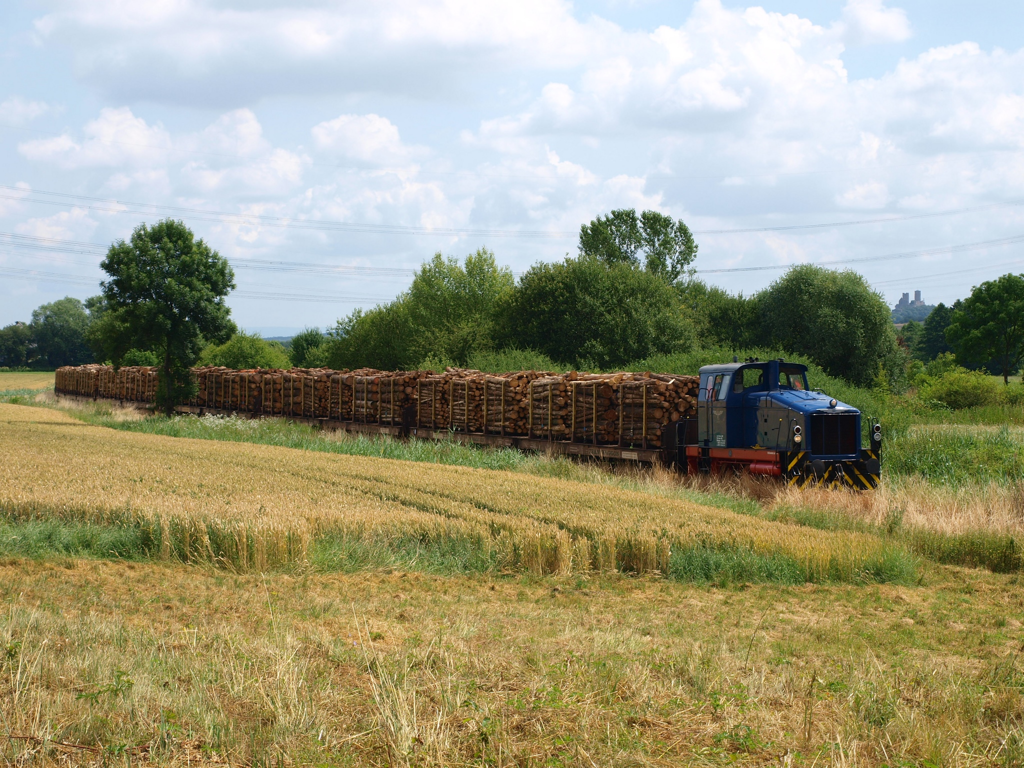 Freight train of the Eisenbahnfreunde Wetterau with locomotive 4 (Krauss-Maffei ML 440 C, 1957) hauling 21 carriages loaded with wood from Münzenberg to Griedel on the Butzbach-Licher railway line.